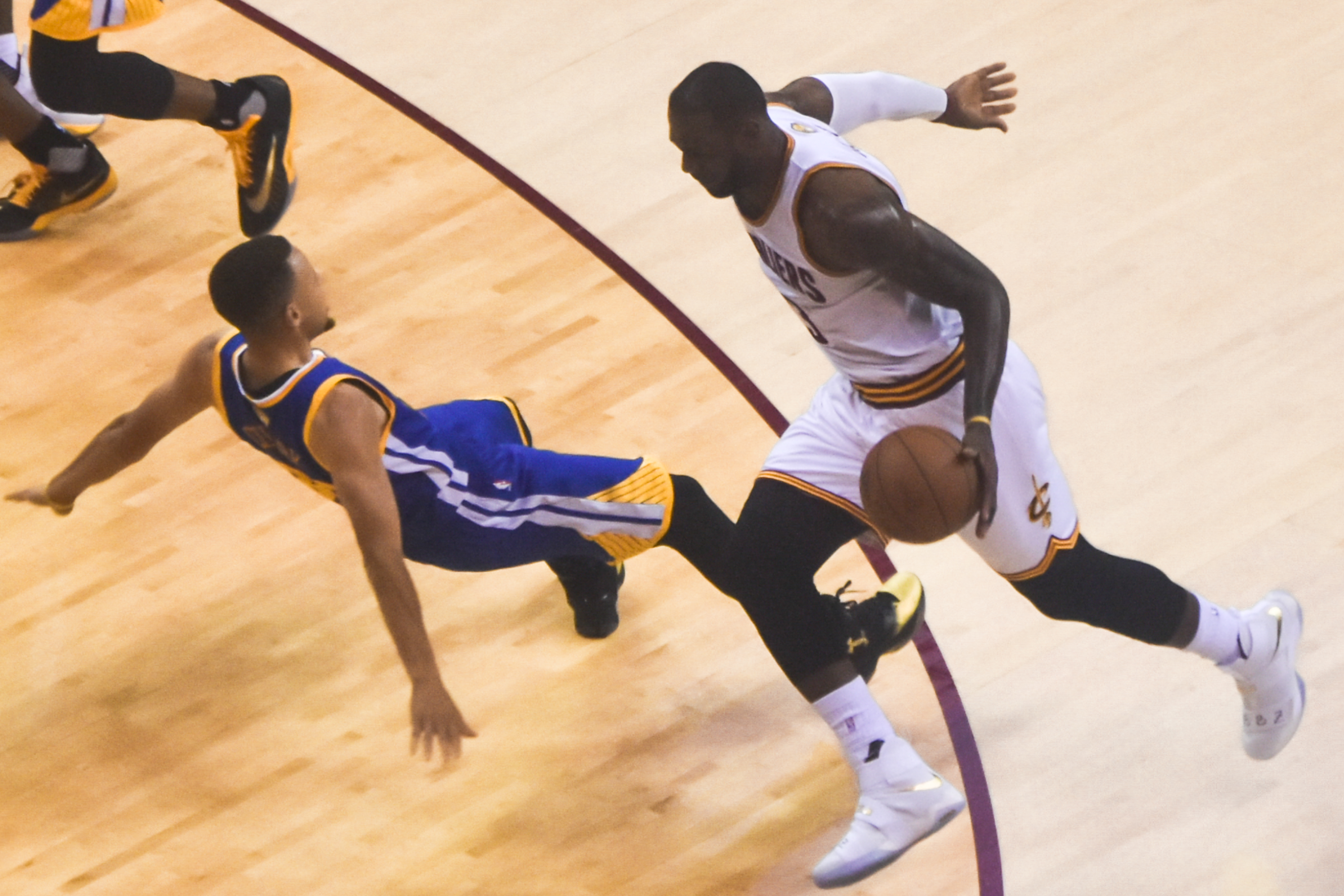 Steph Curry (left) and LeBron James (right) during game 6 of the 2016 NBA Finals between Golden State Warriors and Cleveland Cavaliers